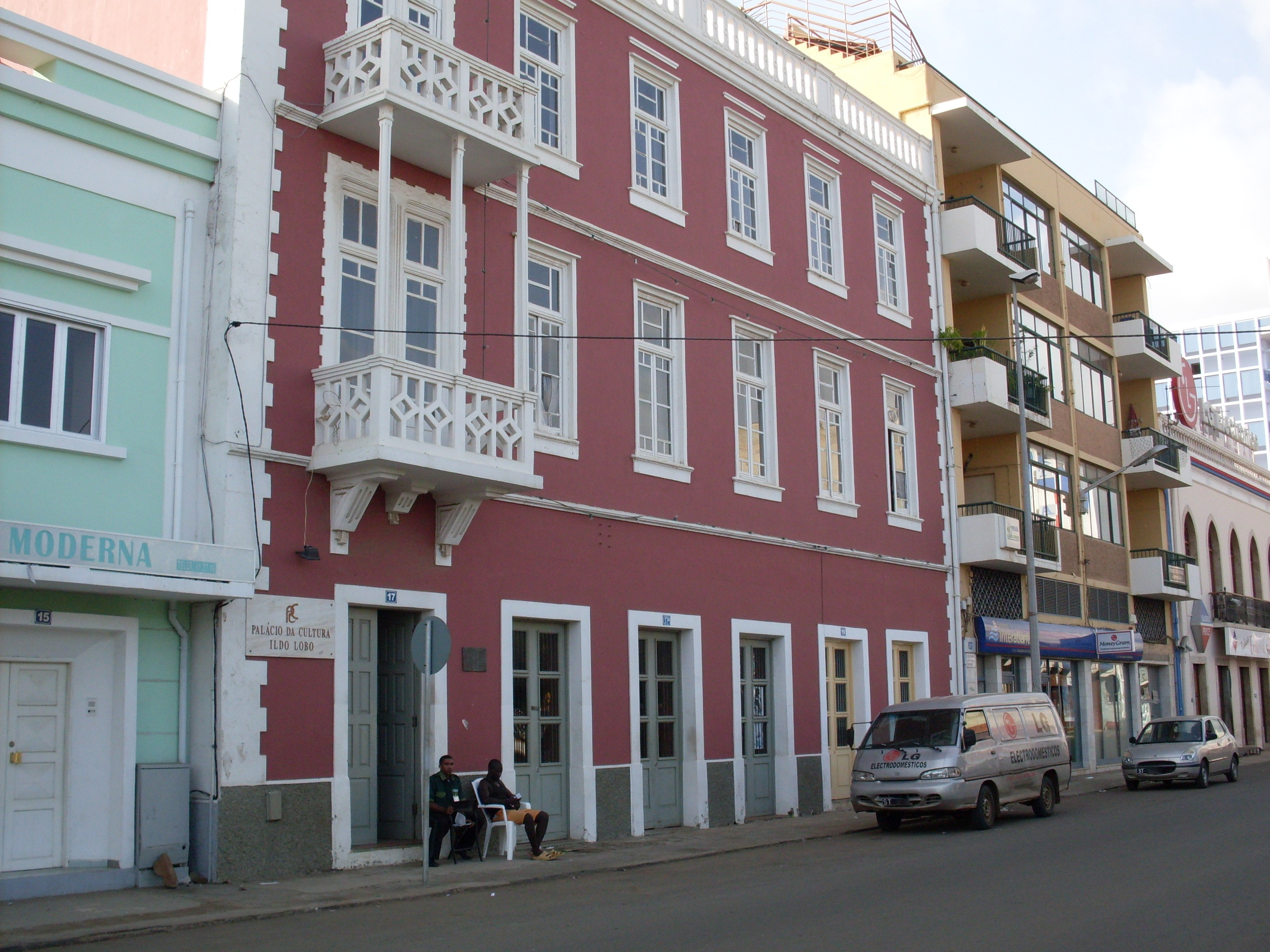 Palácio da Cultura, in Praia